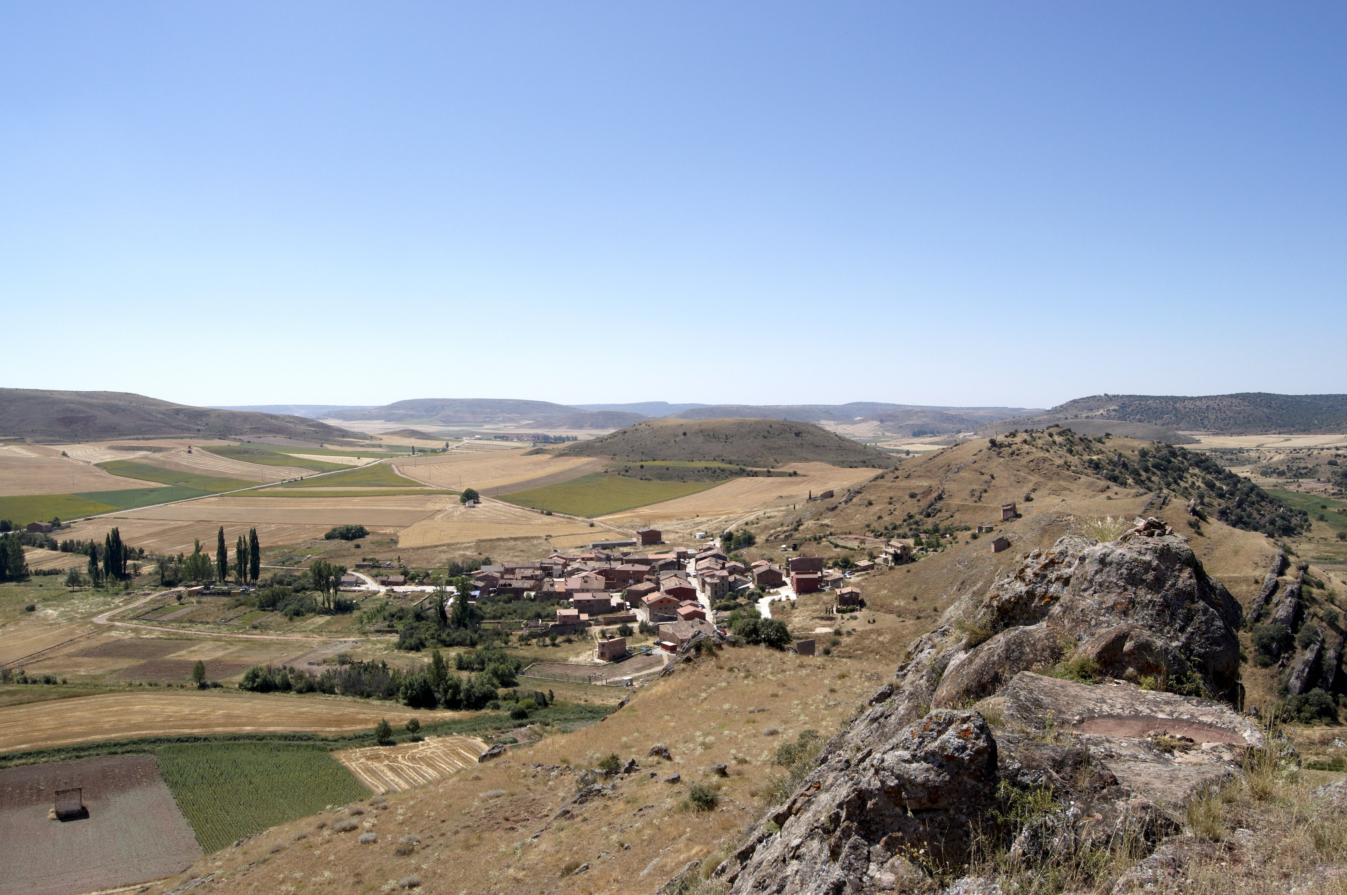 View of Riba de santiuste (Sigüenza, Castile-La Mancha, Spain).